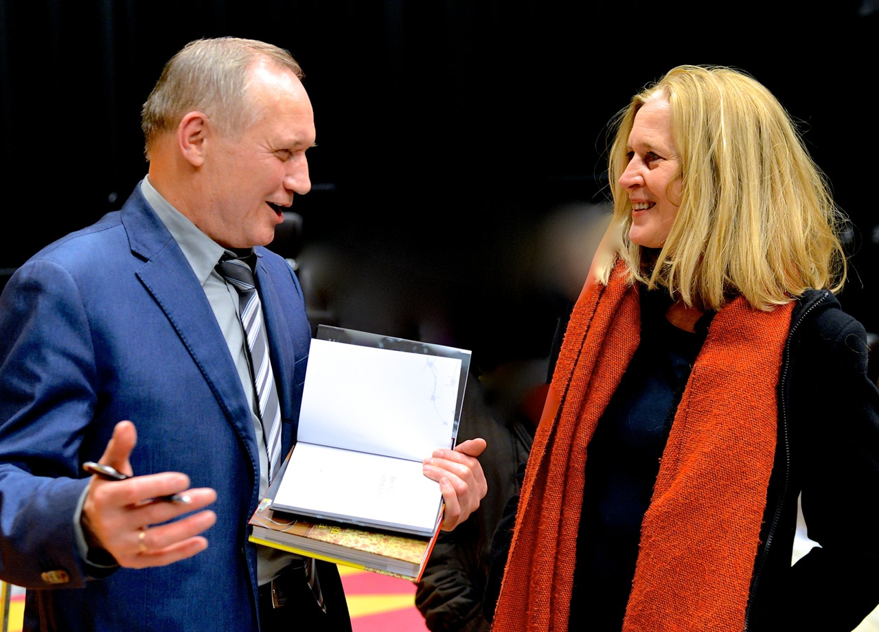 Uladzimir Niakliaew February 25, 2014 in Stockholm when he receives Tucholsky Prize by Swedish PEN.